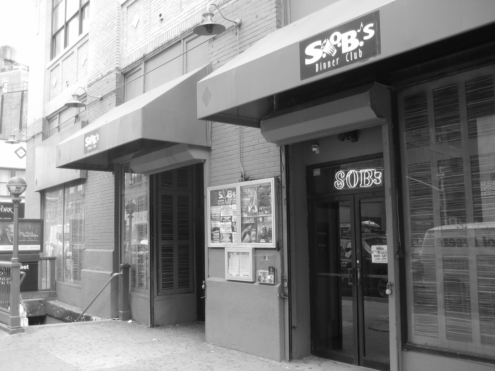 SOBs exterior taken from outside the 1 stop at Houston